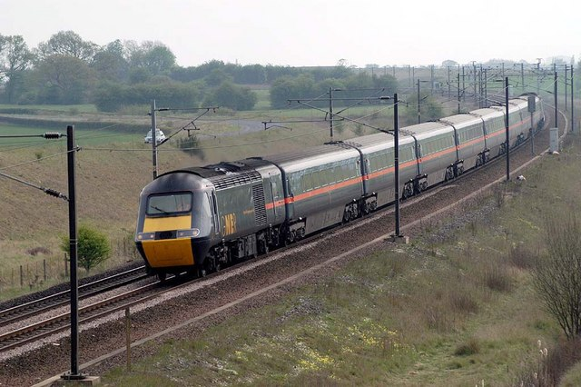 A HST heads North to York